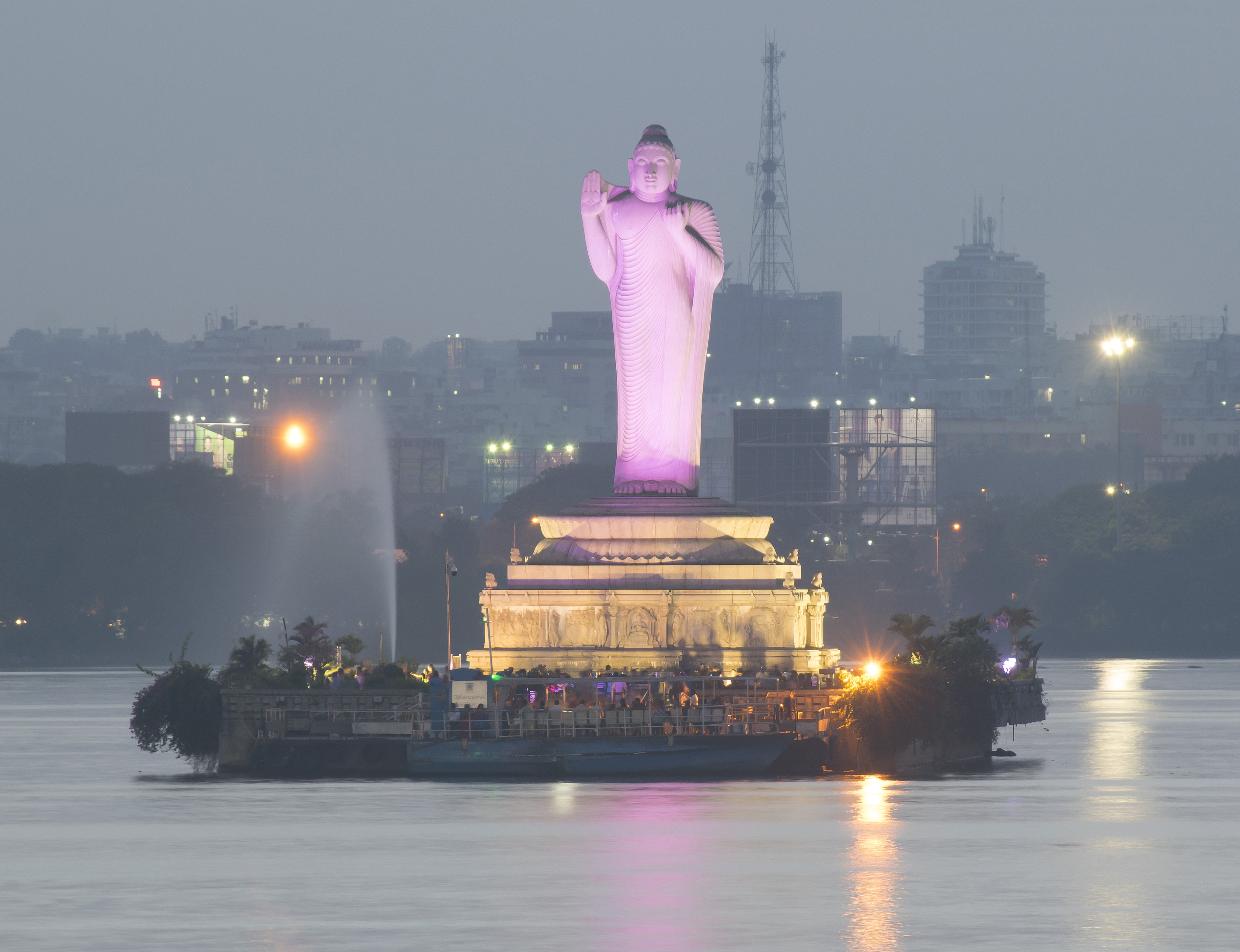 Buddha Statue as seen from Tank Bund in Hyderabad, India